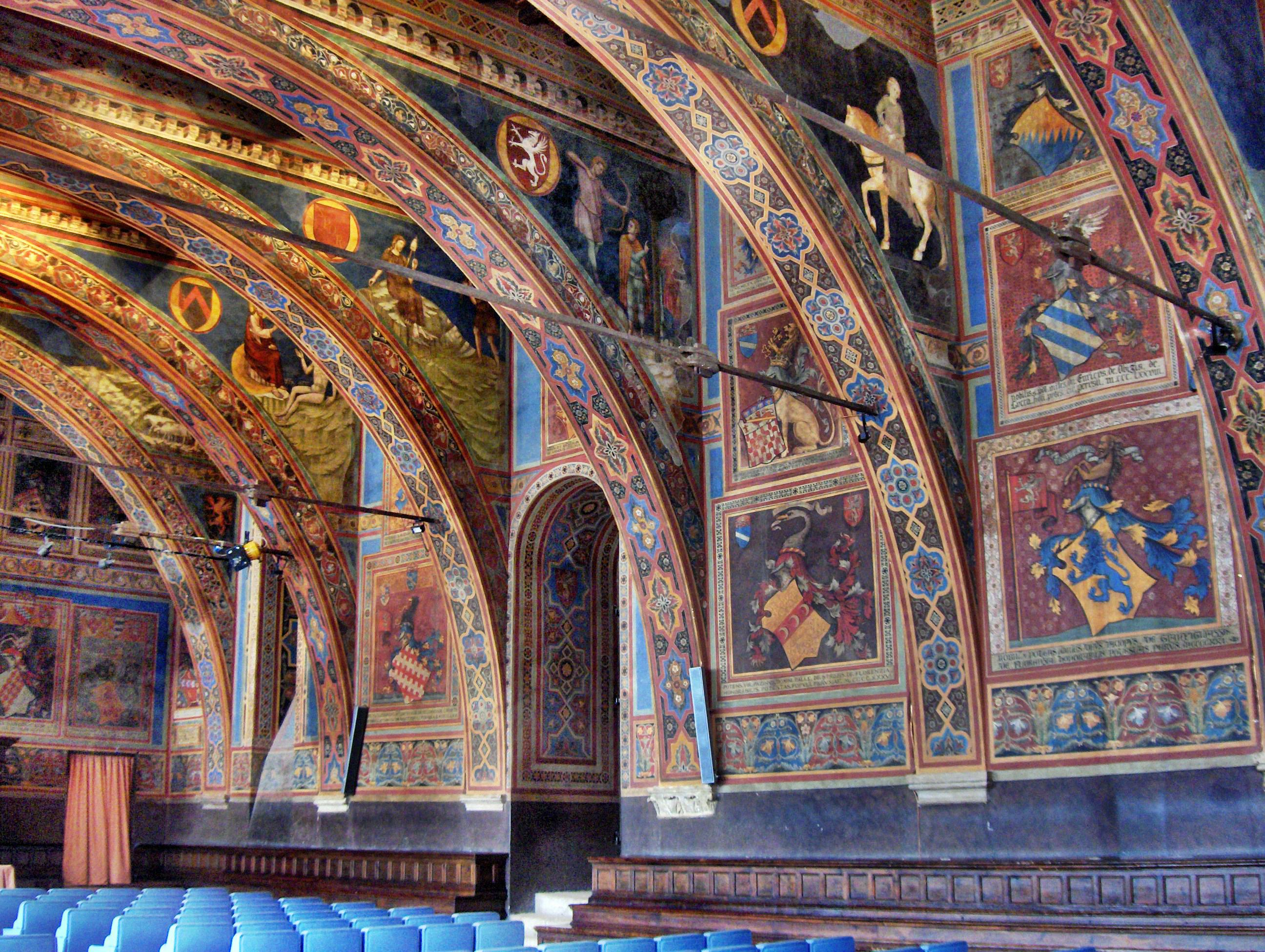 Sala dei Notari, paintings by Pietro Cavallini (late 13th century), Palazzo dei Priori, Perugia, Italy